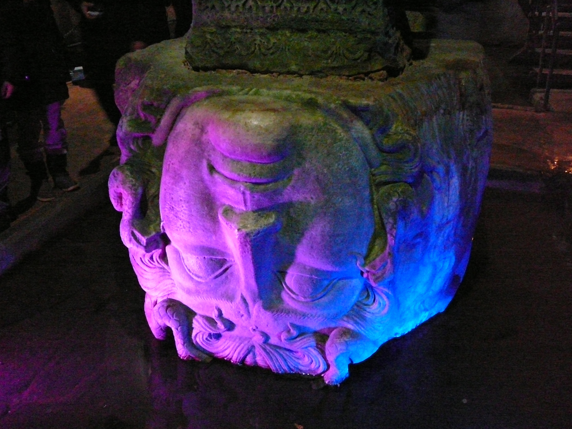 Head of Medusa in the Basilica cistern of Justinian I. (turkish Yerebatan Sarnıcı). Spolia reused as column base.